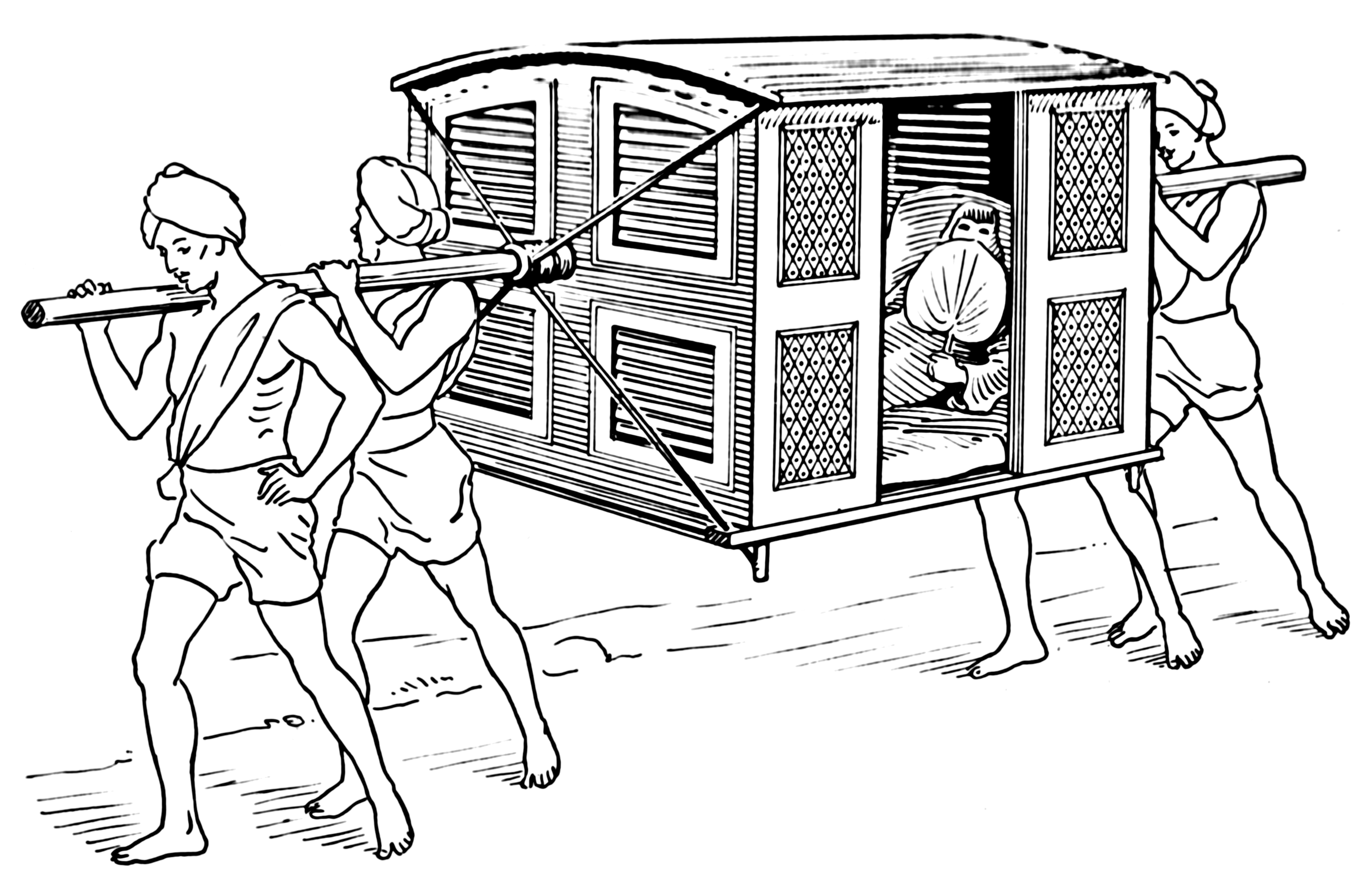 Line art drawing of palanquin.